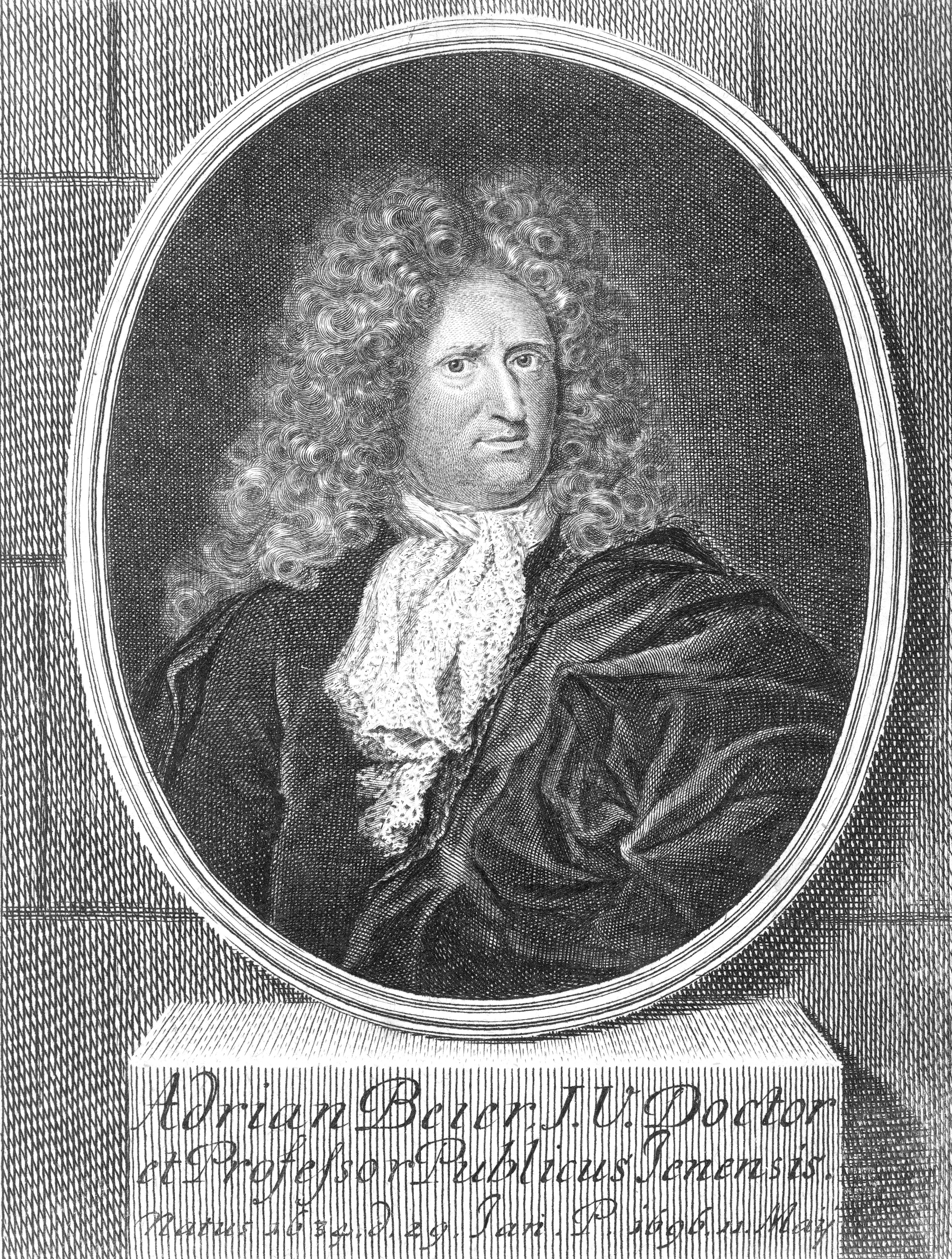 Adrian Beier ther Younger, auch Adrian Beyer (*1634 -1712) german legal Scholar